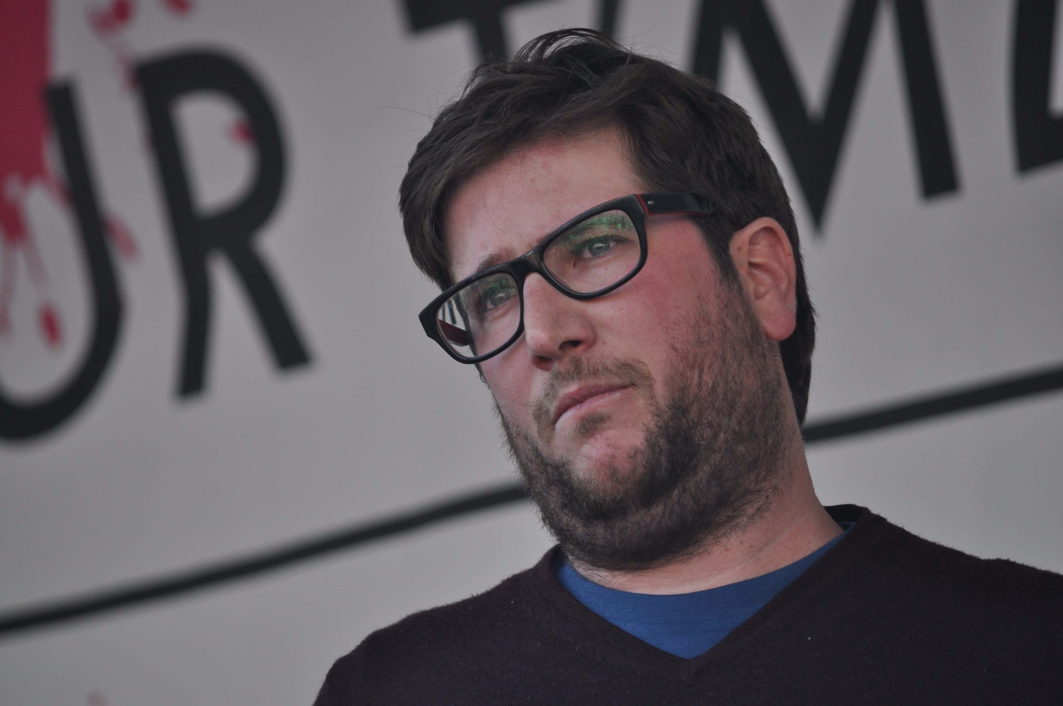 Miguel Urbán at the central meeting of Blockupy in Frankfurt 03/18/2015